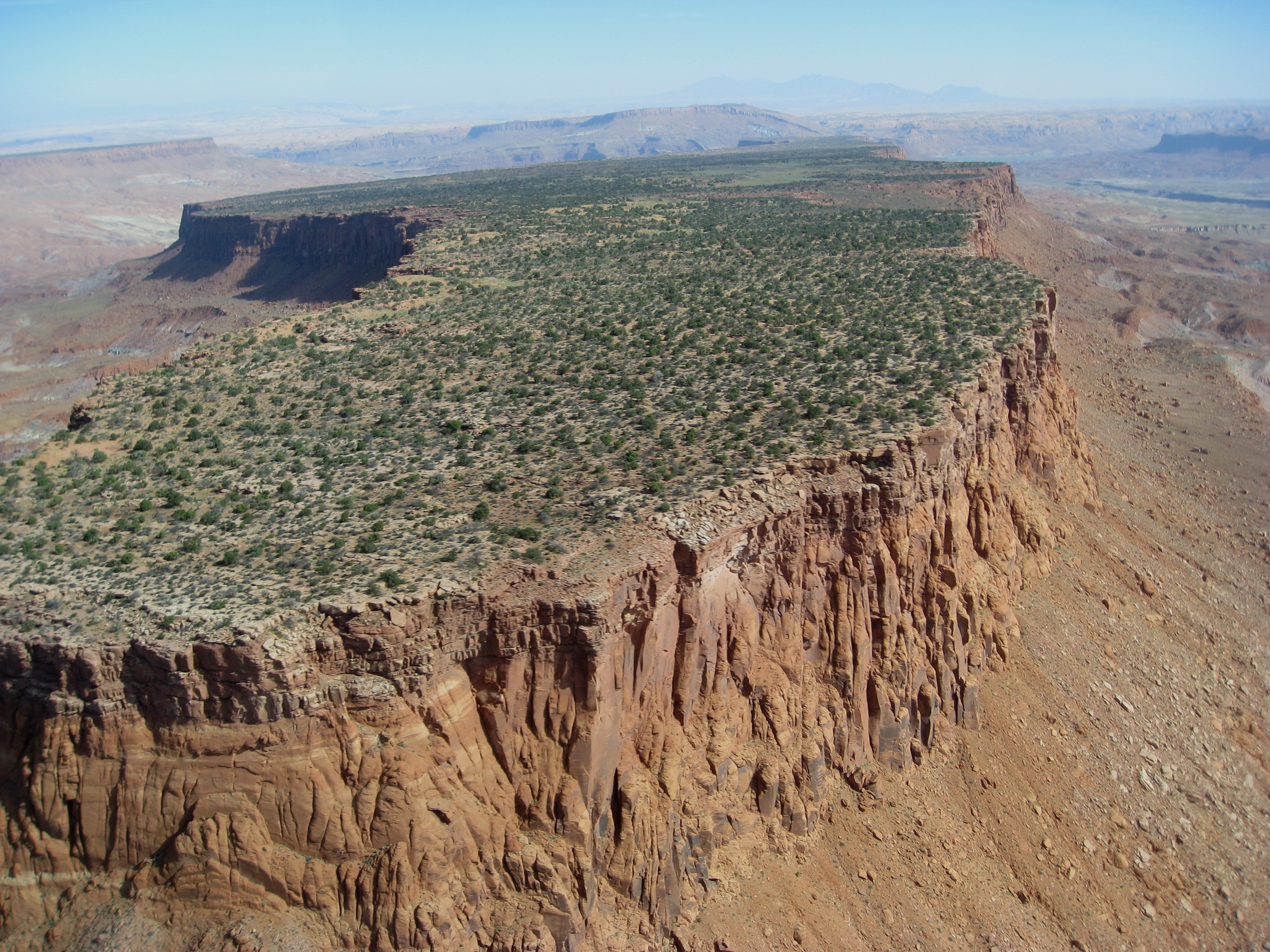 Monument Valley is a region of the Colorado Plateau characterized by a cluster of vast and iconic sandstone buttes, the largest reaching 1,000 ft (300 m) above the valley floor. It is located on the southern border of Utah with northern Arizona (around 36°59′N 110°6′W), near the Four Corners area. The valley lies within the range of the Navajo Nation Reservation, and is accessible from U.S. Route 163. The Navajo name for the valley is Tsé Bii' Ndzisgaii (Valley of the Rocks).